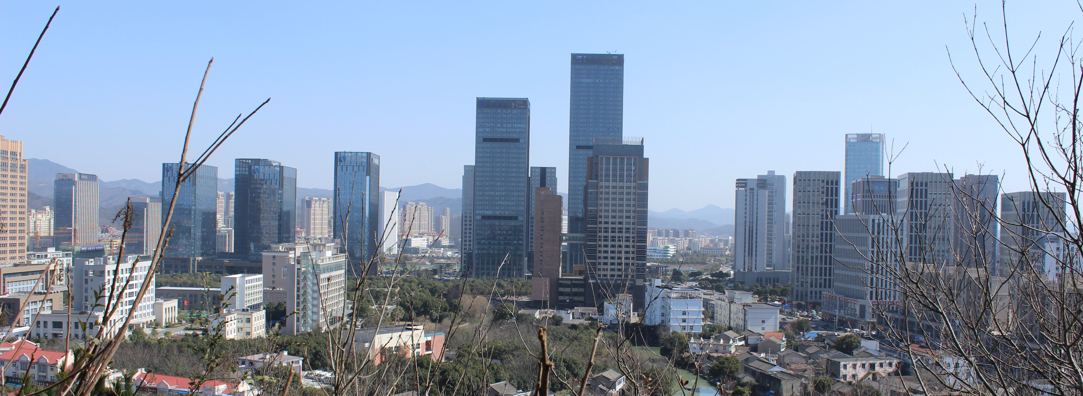 Photo taken from Wengshan Park